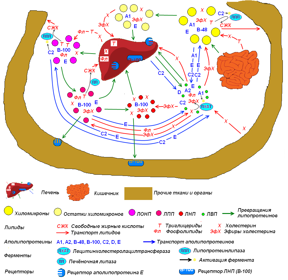 Metabolism of lipoproteins